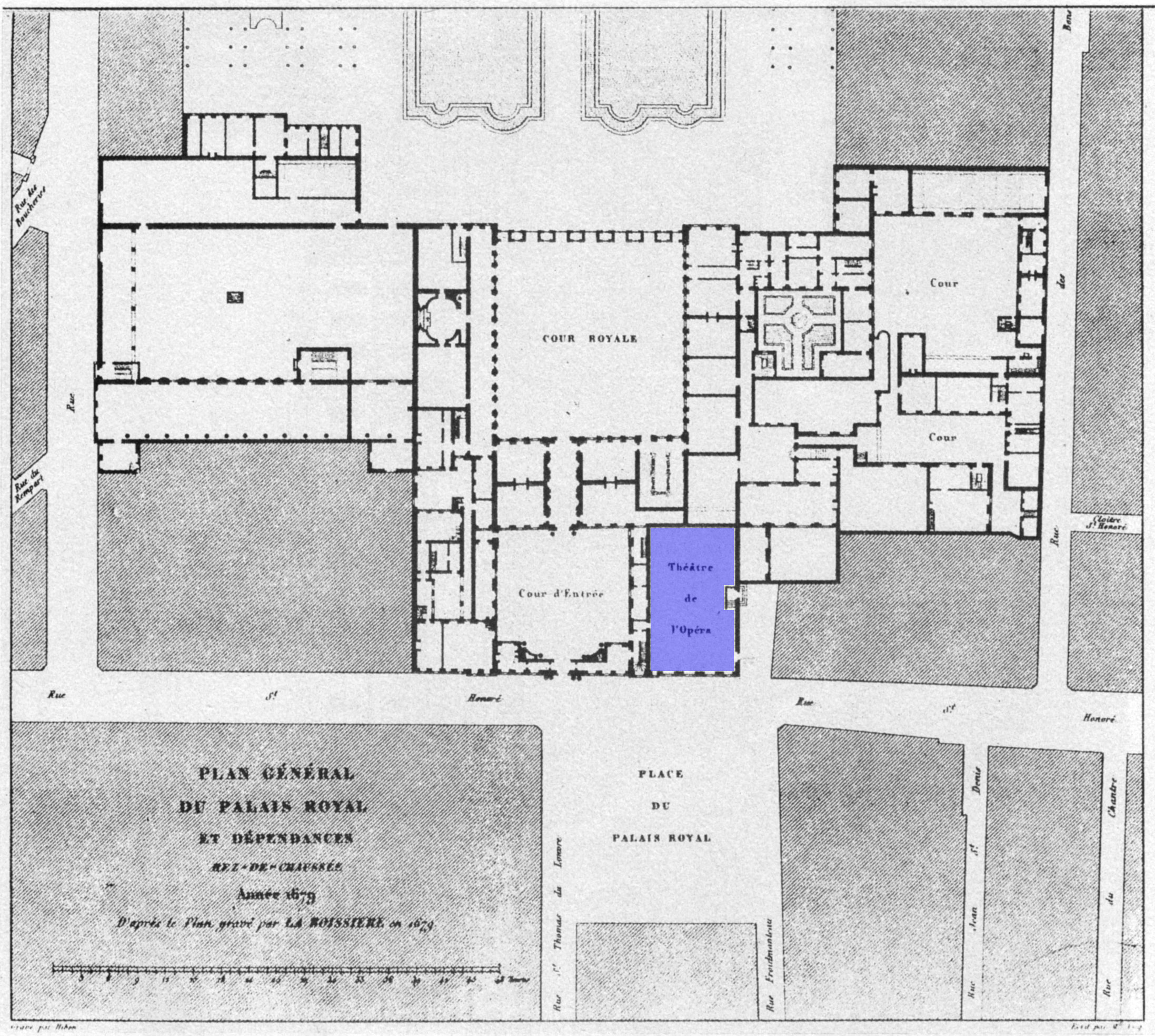 Plan of the Palais-Royal in 1679, showing the location of the Paris Opera's theatre in the east wing. This plan was reconstructed in 1829 by the French architect Pierre-François-Léonard Fontaine based on a 1679 engraved plan by Boissière. See also the 1679 engraved view of the Palais-Royal by Boissière and Pierre d'Espezel, Le Palais-Royal, Paris, Calmann-Lévy, 1936, p. 73.